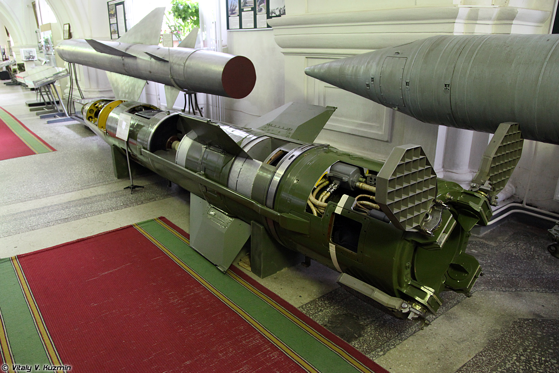 9M79K missile for 9K79 Tochka missile system